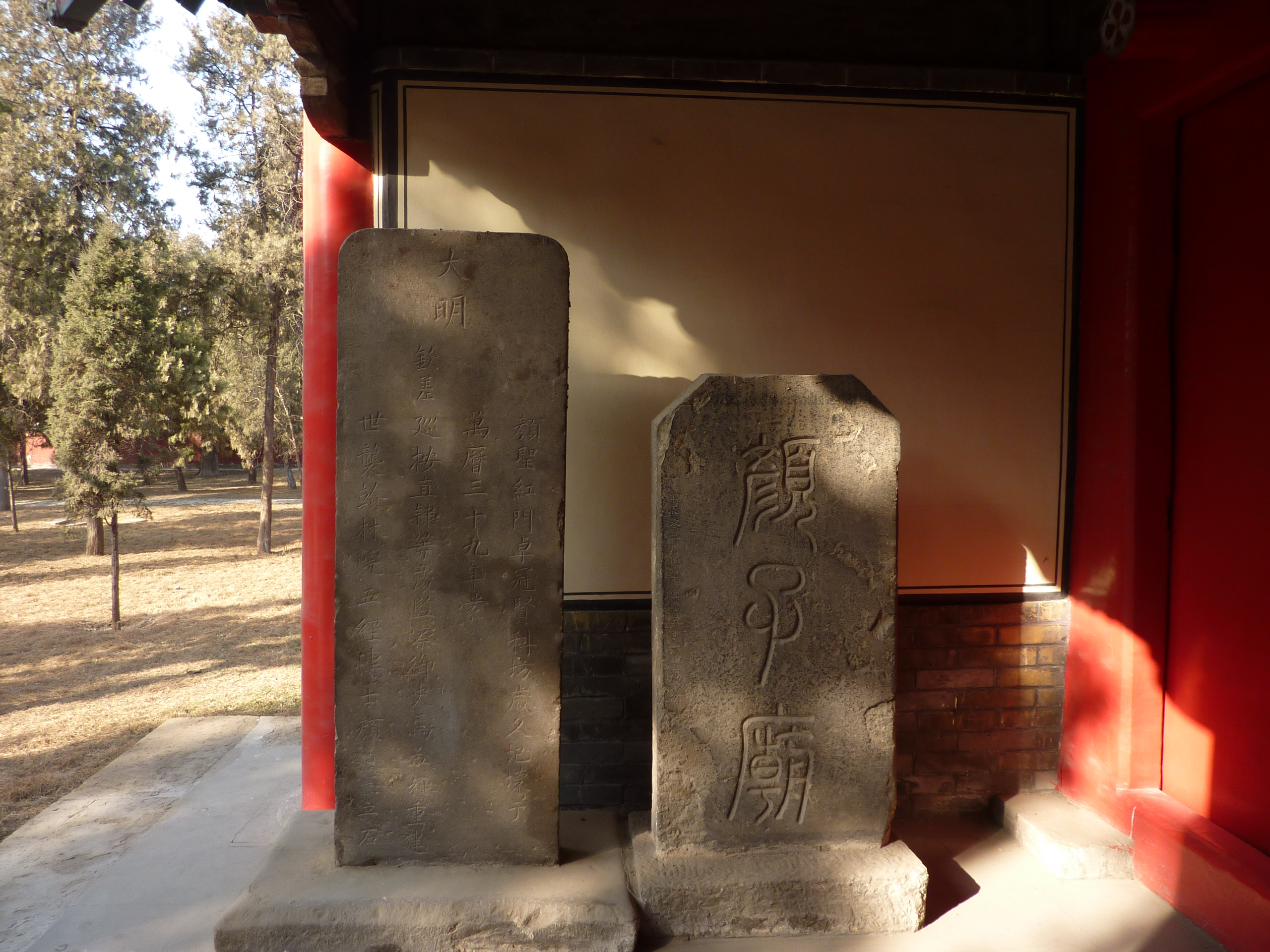 Yan Miao, inside the "Gates of Returning to Propriety" (Gui Ren Men). Protected inside the gate's pavillion, on its west side, are two stelae: left (south): a stele from Year 39 of the Wanli (Ming Dynasty), i.e. AD 1611. (Item no. 293 in the Ming Dynasty section of Luo Chenglie's book; pp. 670-671.) right (north): Yan Zi Miao Stele, dated Year 24 of the Dading era (Jin [Jurchen] Dynasty), i.e. AD 1184.